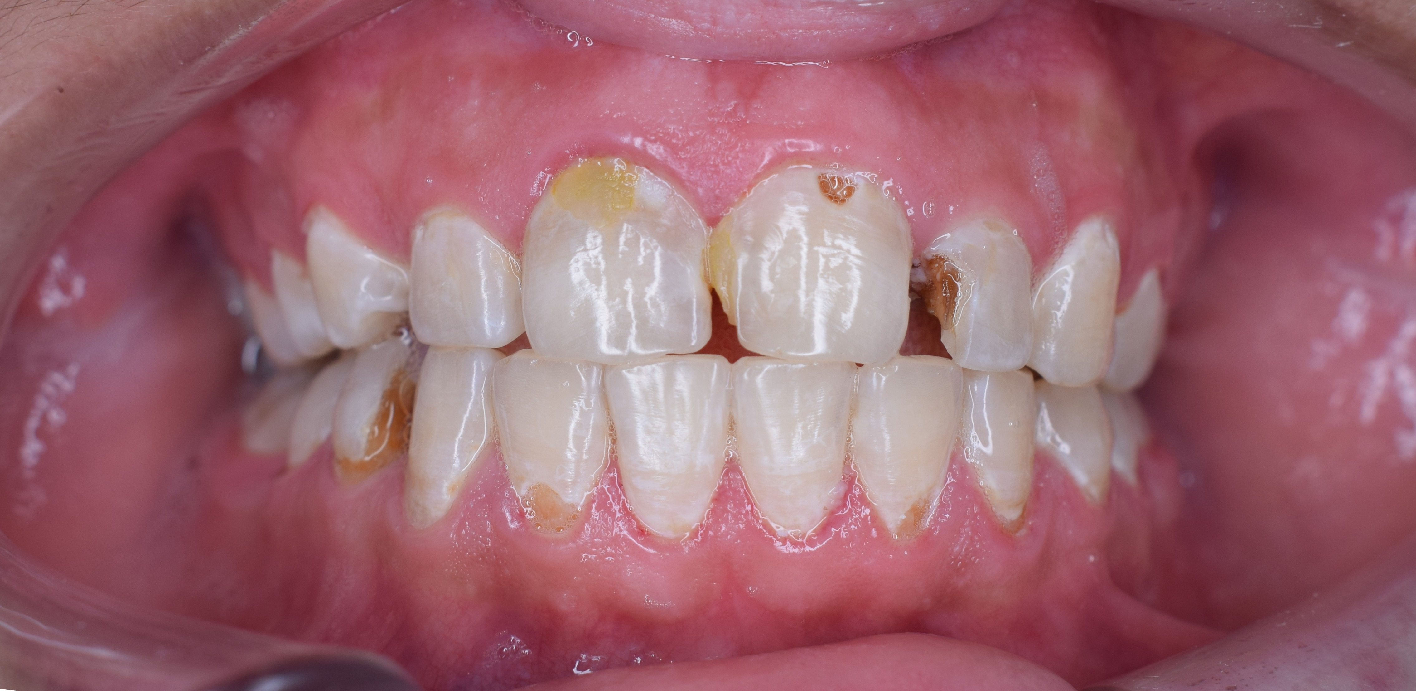 Dental caries